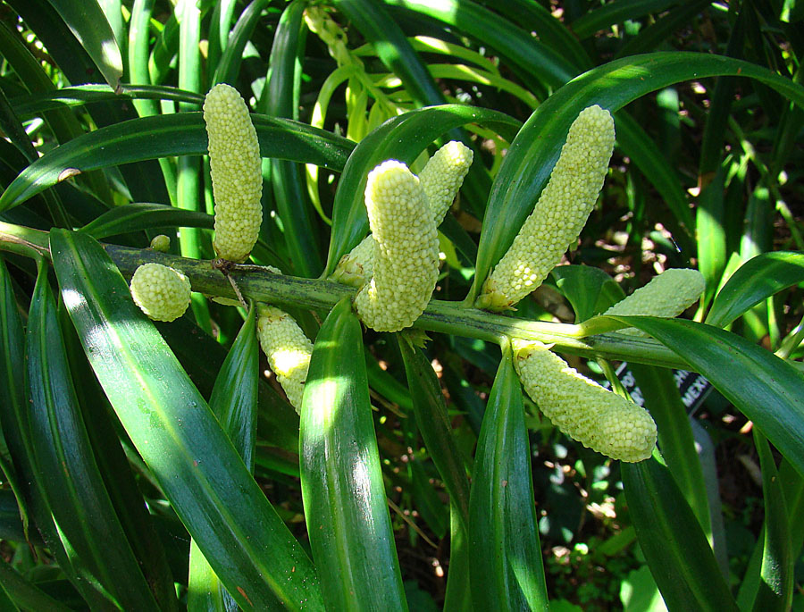 Native from Mexico to Nicaragua. Photo from a garden in San Francisco. In context at